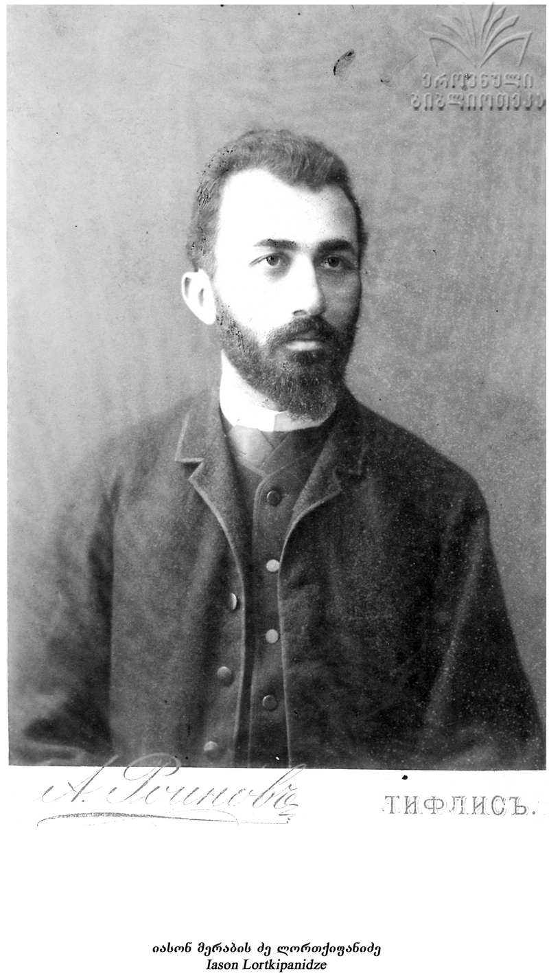 Iason Merabis dze Lortkipanidze (1866-1949)